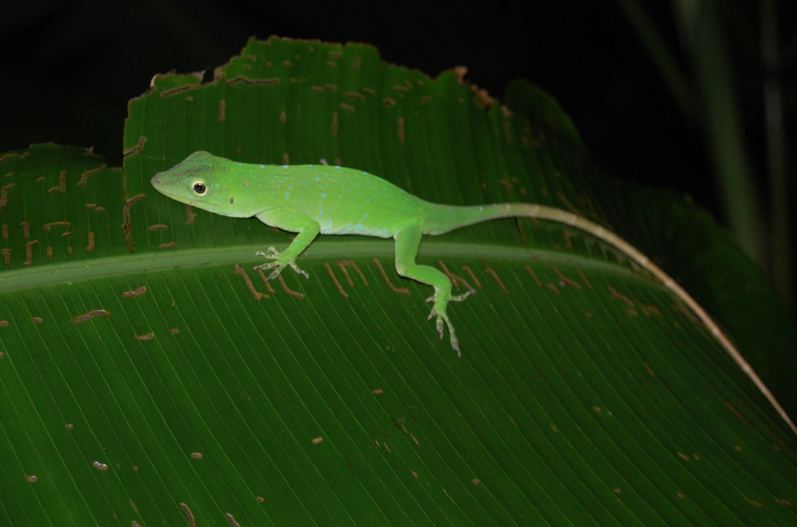 Neotropical Green Anole (Anolis biporcatus, also called Norops biporcatus), spotted at night in the Osa Peninsula, Costa Rica.